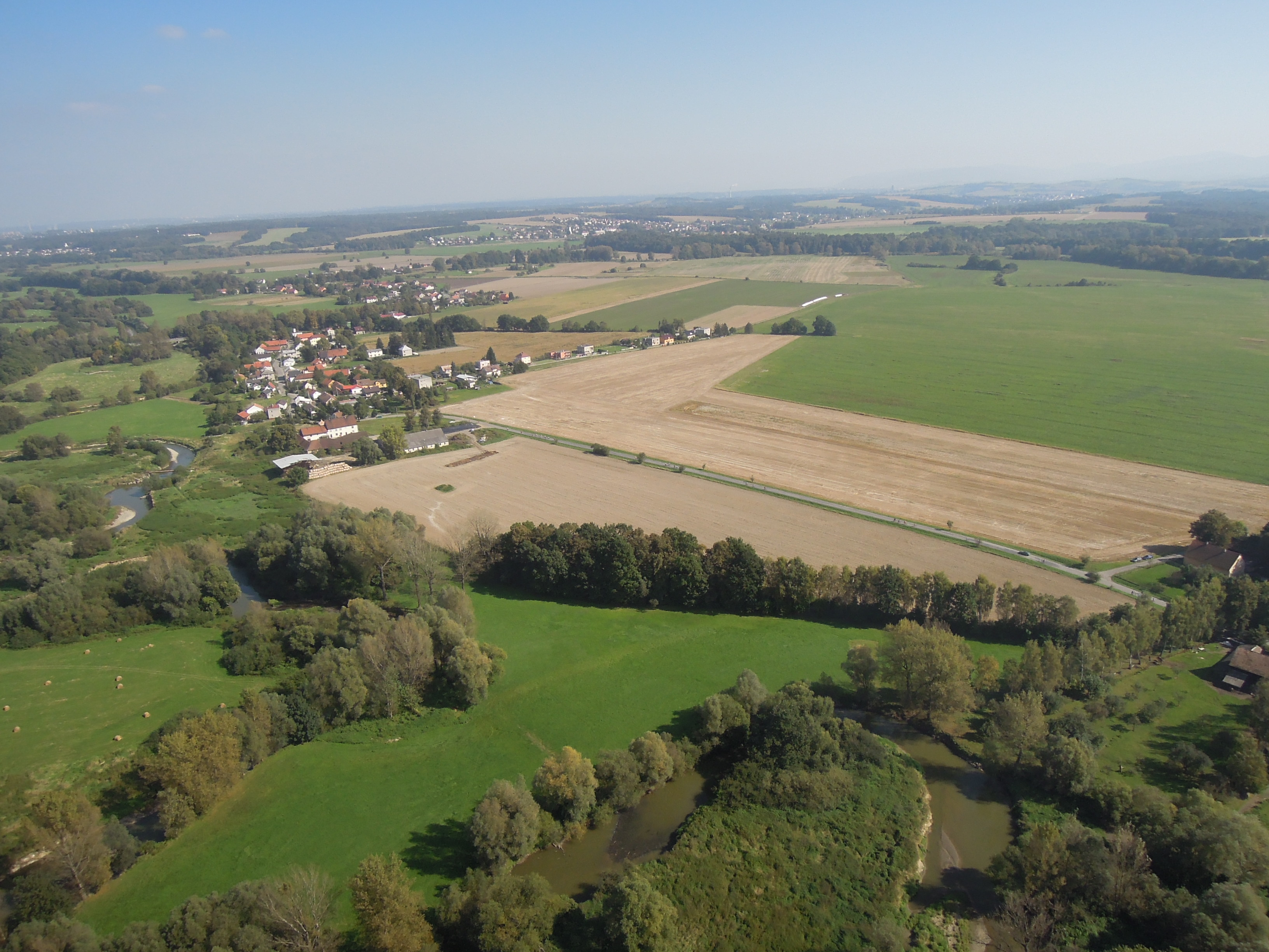 View of Košatka and CHKO Poodří, Moravian–Silesian Region, Czech Republic; photo was taken from Robinson R44 helicopter